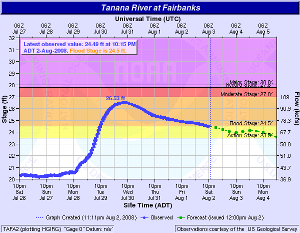 Gauge of the Tanana River at Fairbanks during the 2008 Tanana Valley flood.